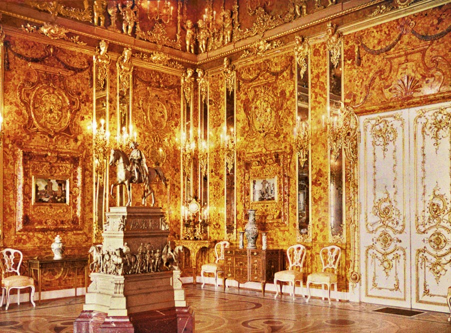 Tsarskoye Selo, Catherine Palace. The Amber Room in 1917. Autochromes of Andrei Andreyevich Zeest are made in June-August 1917. Interiors photographing of Tsarskoye Selo was conducted on behalf of G. K. Lukomsky (chairman of the Commission for acceptance and registration estate management of the Tsarskoye Selo palace; the commission formed by the Provisional Government). In the Amber Room at the time was placed the model of the monument Friedrich the Great.